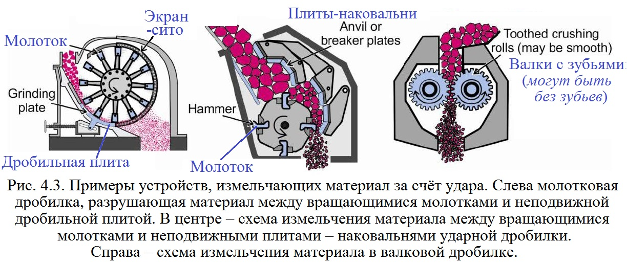 Figure 4.3. Examples of impactive crushers. Left—a hammermill-type c rusher showing material crushed between the rotating hammers and fixed grinding plate. Center— illustration of material being crushed between rotating hammers and fixed anvil plates in an impact breaker. Right—illustration of the size reduction action of a roll crusher.